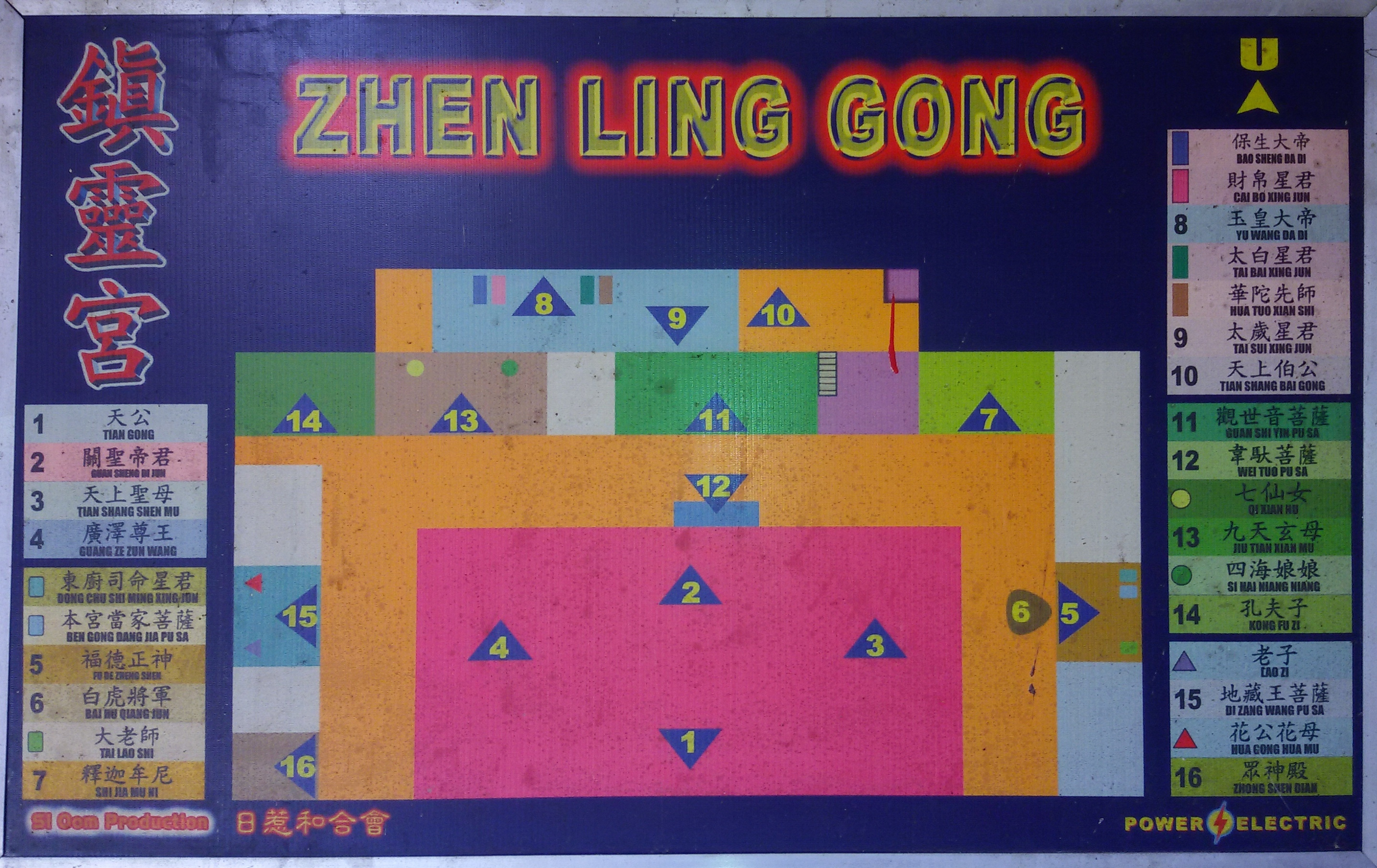 The site plan of Tjen Ling Kiong temple, Indonesia